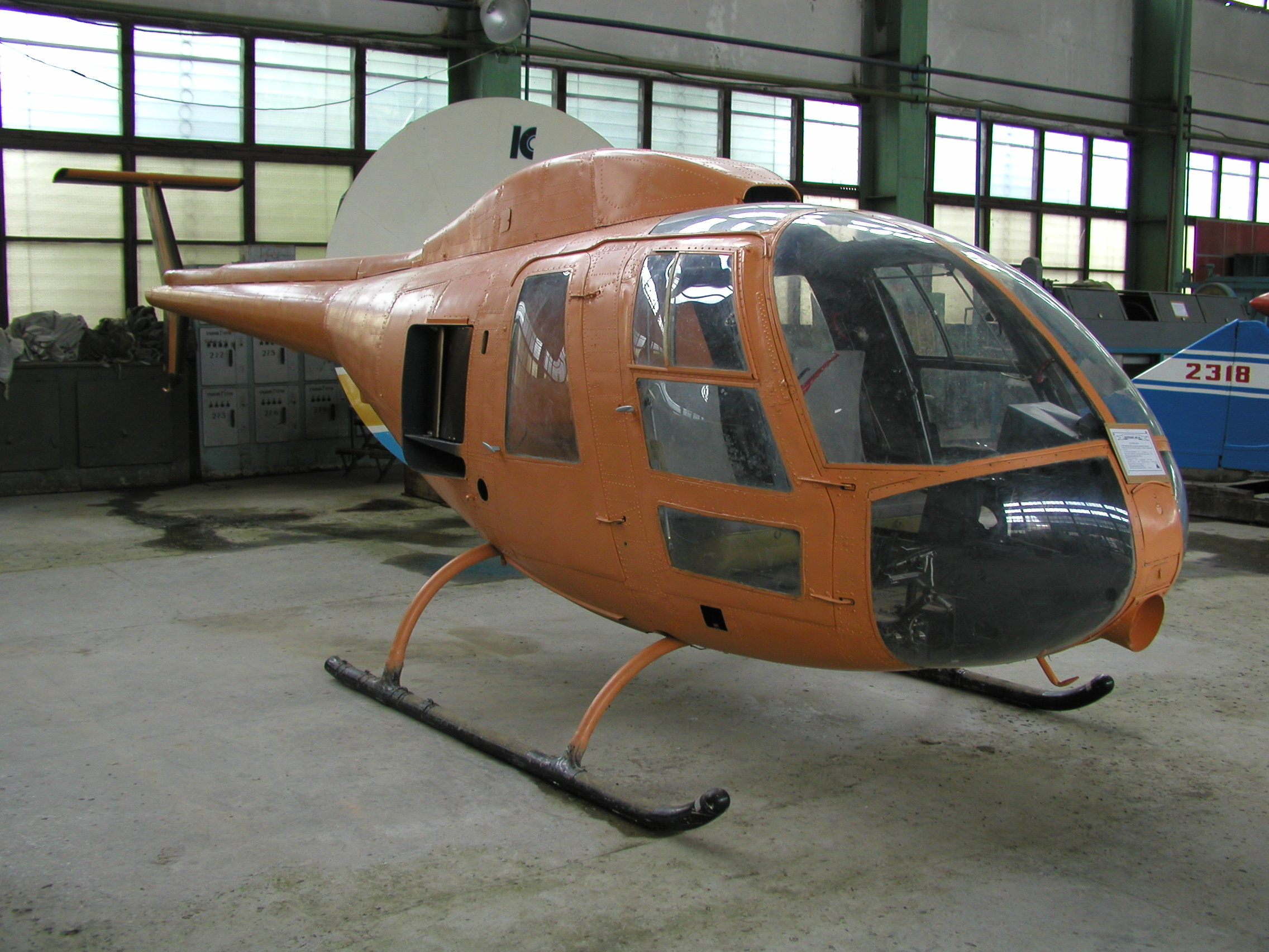 Mil Mi-34 light helicopter (Dubove Helicopter Plant, Transcarpathian region, Ukraine)